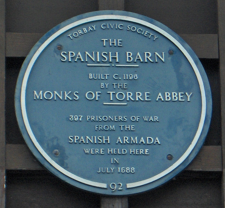 A closeup of the plaque on The Spanish Barn in Torquay, England. Taken on 25 August 2005 using an HP Photosmart R707 at 5.1 megapixels. See also: The Spanish Barn, Torquay.jpg